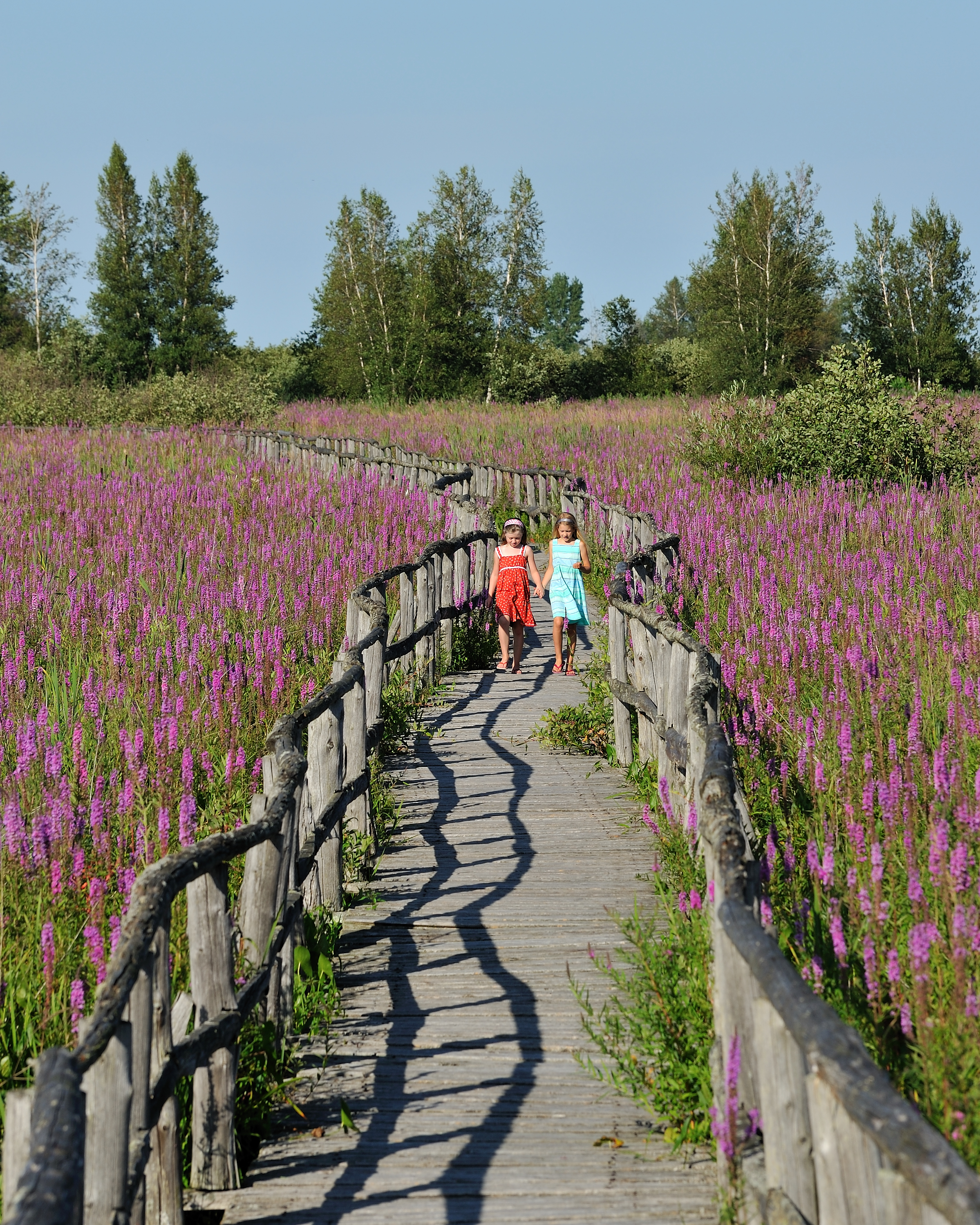 Purple-loosestrife, an invasive species, now dominates the Cooper Marsh Conservation Area, near Cornwall, Ontario.